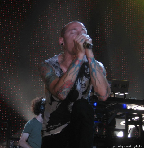 Chester Bennington of Linkin Park playing at the Smirnoff Music Centre in Dallas, TX during the Projekt Revolution tour 2007. This picture was taken BY ME and is free of copyright infringement!